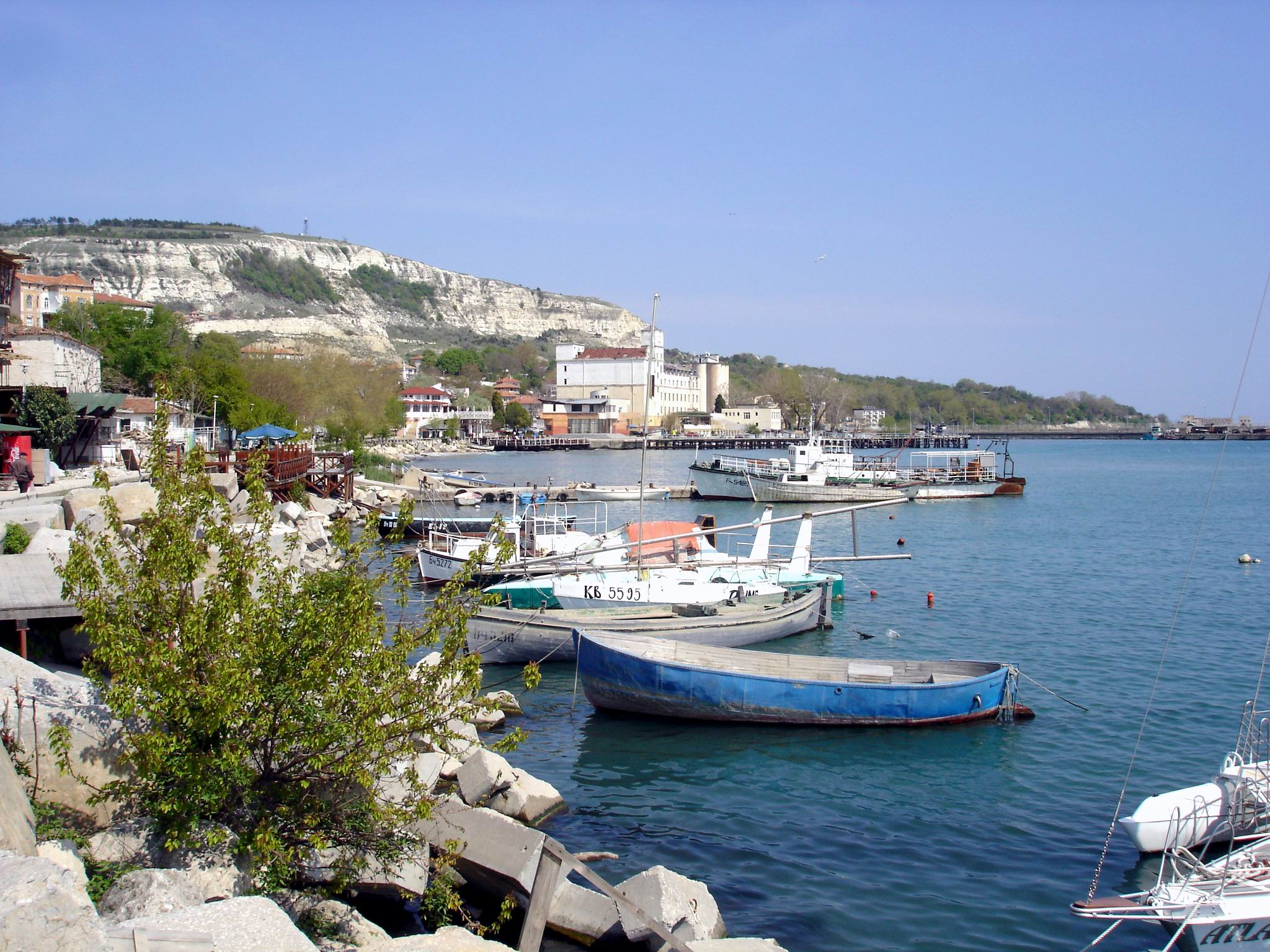 Boats in town Balchik, Bulgaria